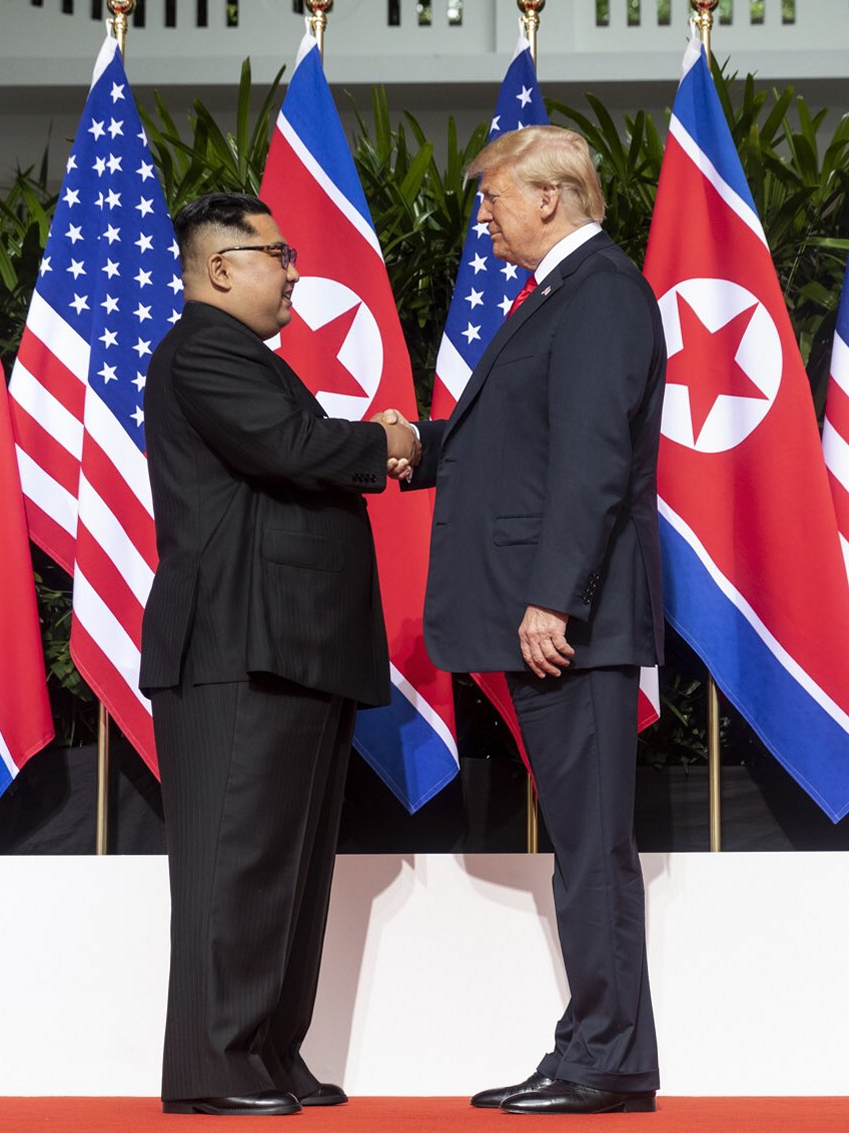 Kim and Trump shaking hands at the red carpet during the DPRK–USA Singapore Summit